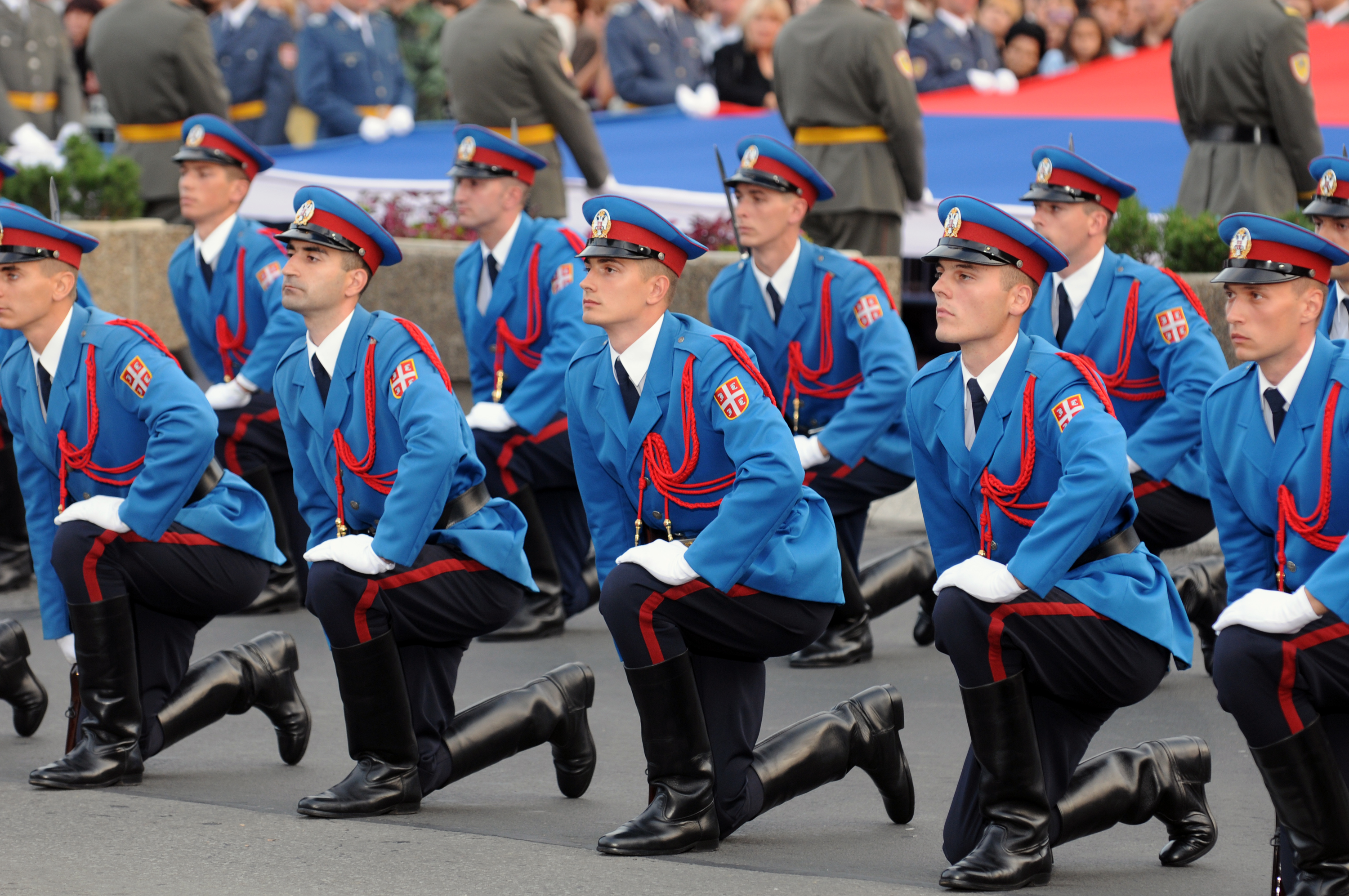 Officer cadets from Serbia's Military Academy take part in a graduation ceremony in front of the National Assembly of the Republic of Serbia in Belgrade, Serbia, on Sept. 11, 2010, attended by Air Force Gen. Craig McKinley, the chief of the National Guard Bureau, Army Maj. Gen. Gregory Wayt, the adjutant general of the Ohio National Guard and other Guard leaders. Serbia is Ohio's partner in the 62-nation National Guard Partership Program. (U.S. Army photo by Staff Sgt. Jim Greenhill) (Released)